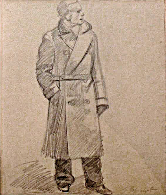 Georg Schrimpf´s pencil drawing "Man With Long Coat" is privately owned.